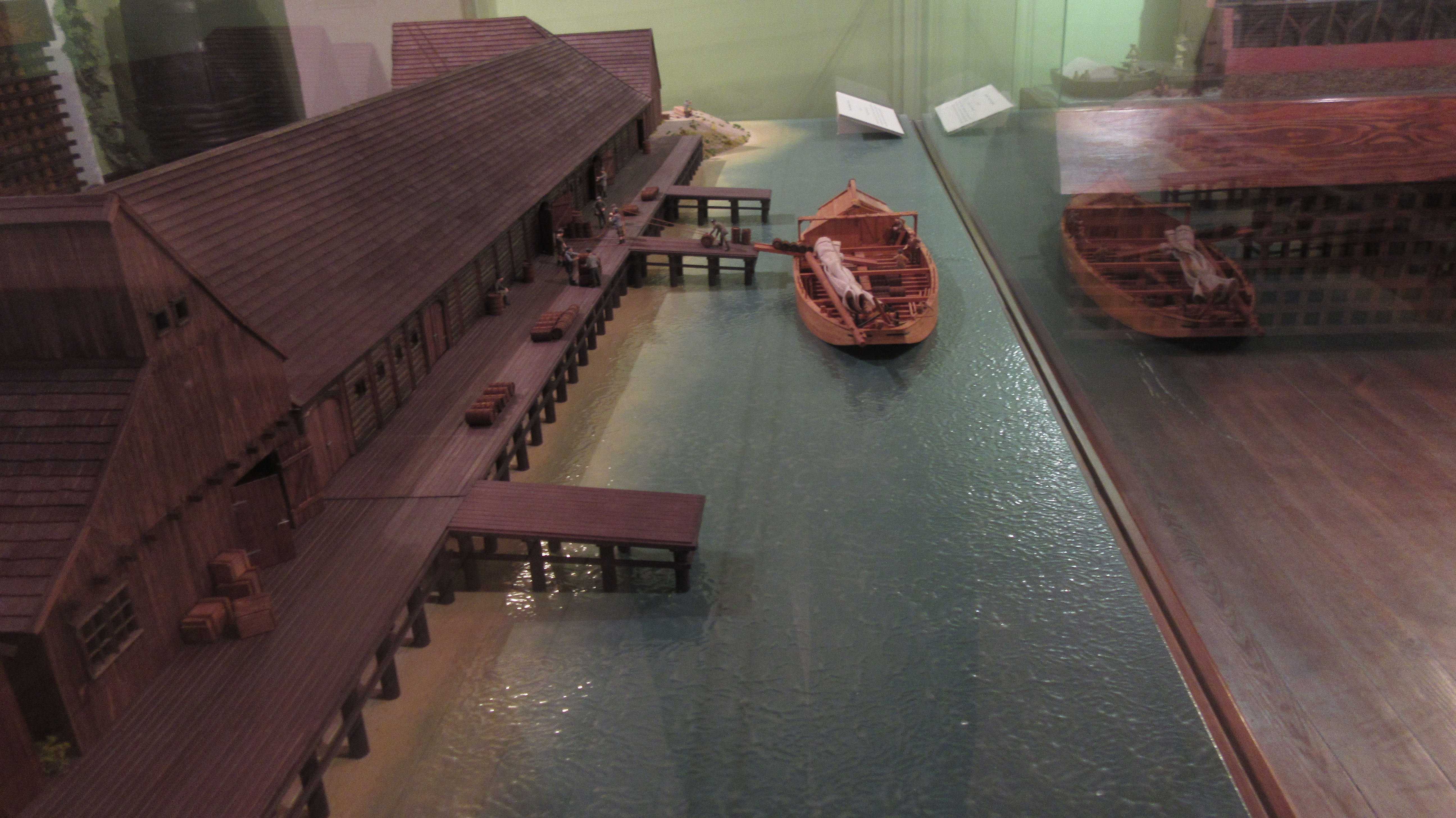 Dwór popielny - old (presently non existing) storage building for barrels of ash, exported from Poland. Exhibit in National Maritime Muzeum in Gdańsk, Poland.